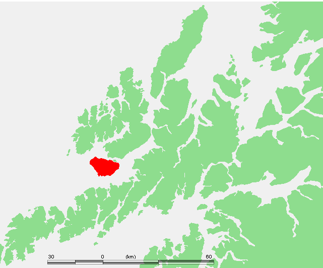 Island of Norway - Hadseløya.PNG